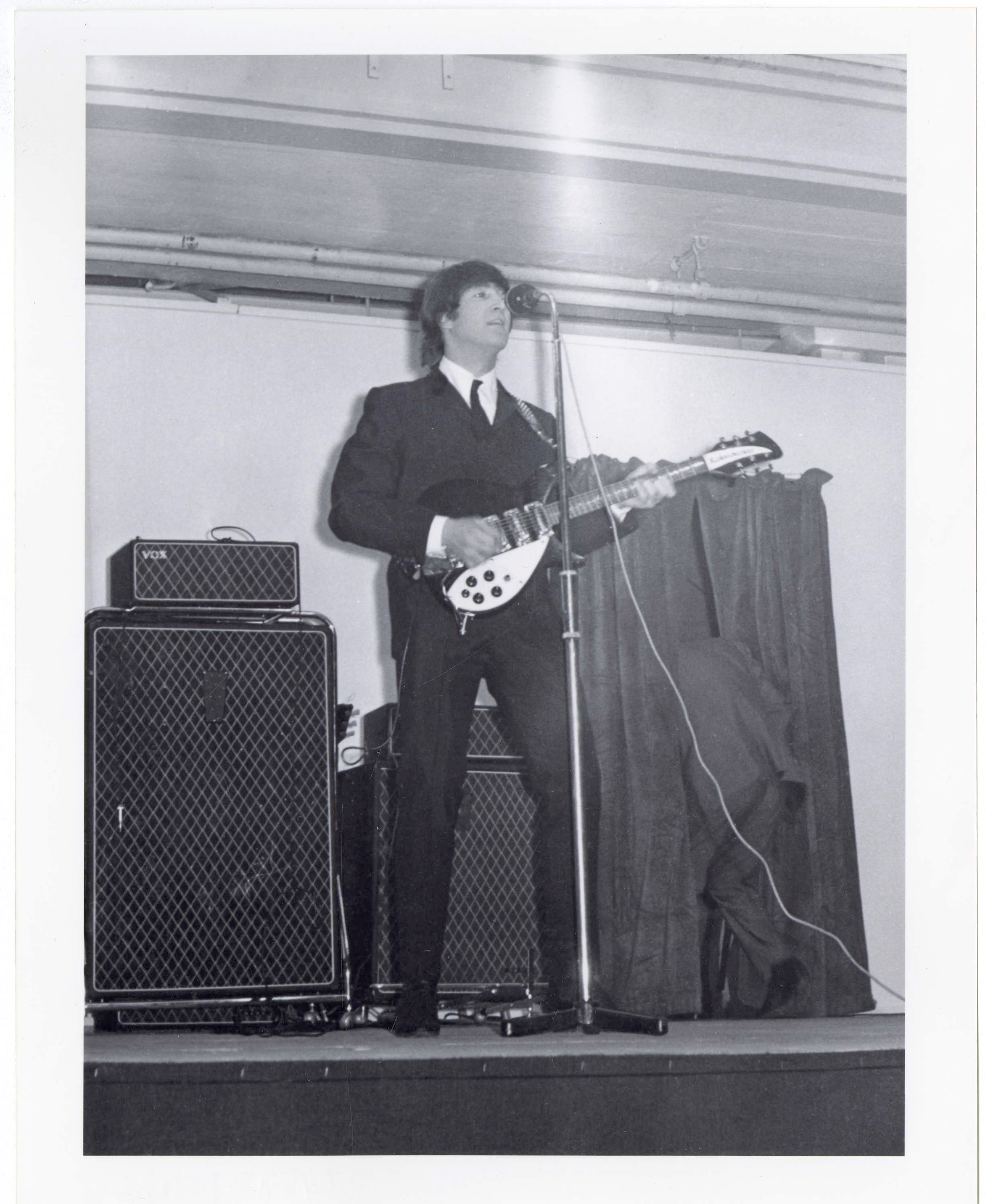 Creator: Nick Newbery Date: 2nd November 1964. Original format: Photographic print. Description: Photograph showing John Lennon on stage playing a show at the King's Hall, Belfast in November 1964. PRONI ref: D4542/2/1/2A Picture credit: Nick Newbery